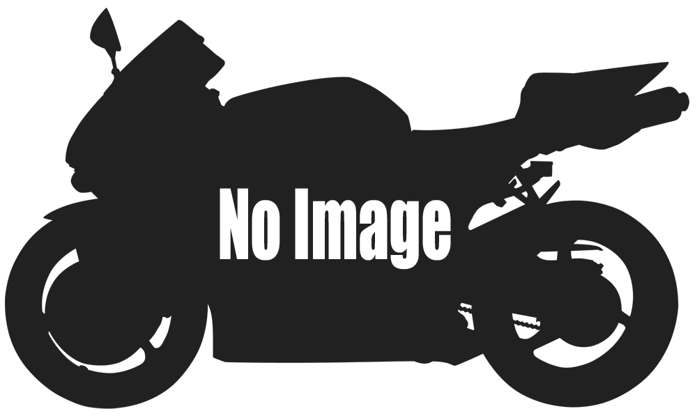 No motorcycle